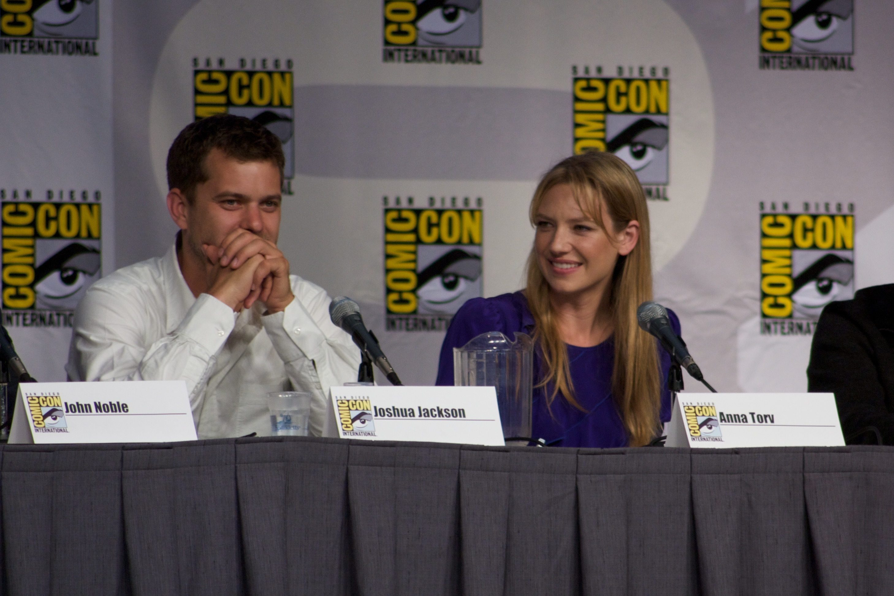 "Fringe" Panel. Actors Joshua Jackson and Anna Torv at San Diego 2010 Comic-Con International.